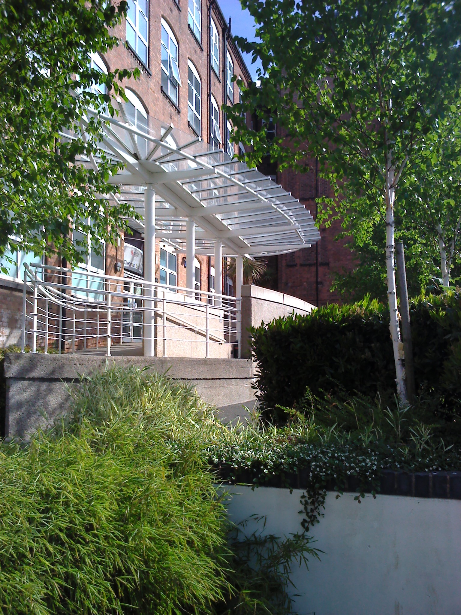 Clephan Building of De Montfort University.